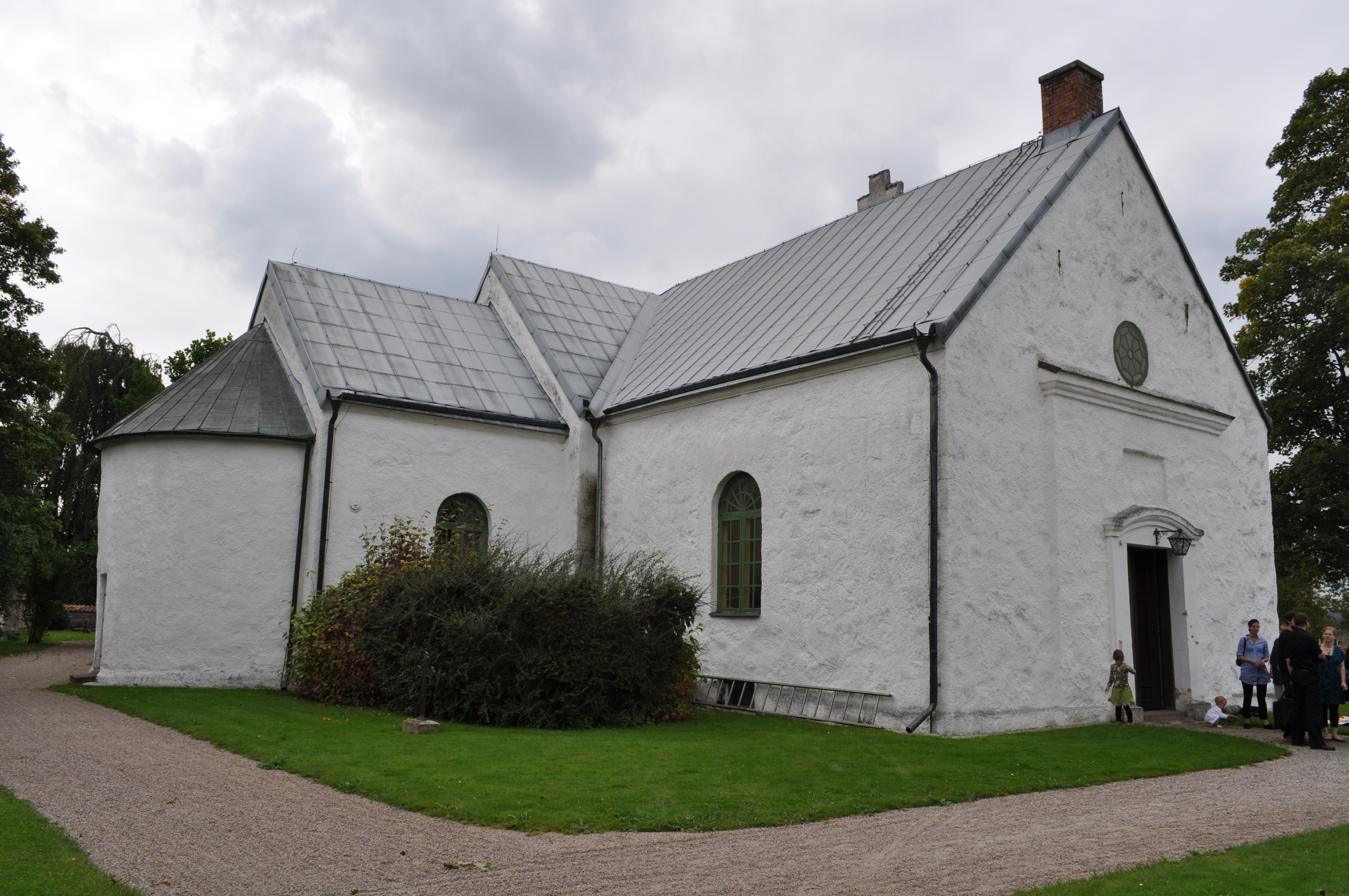 Kviinge church - kyrka